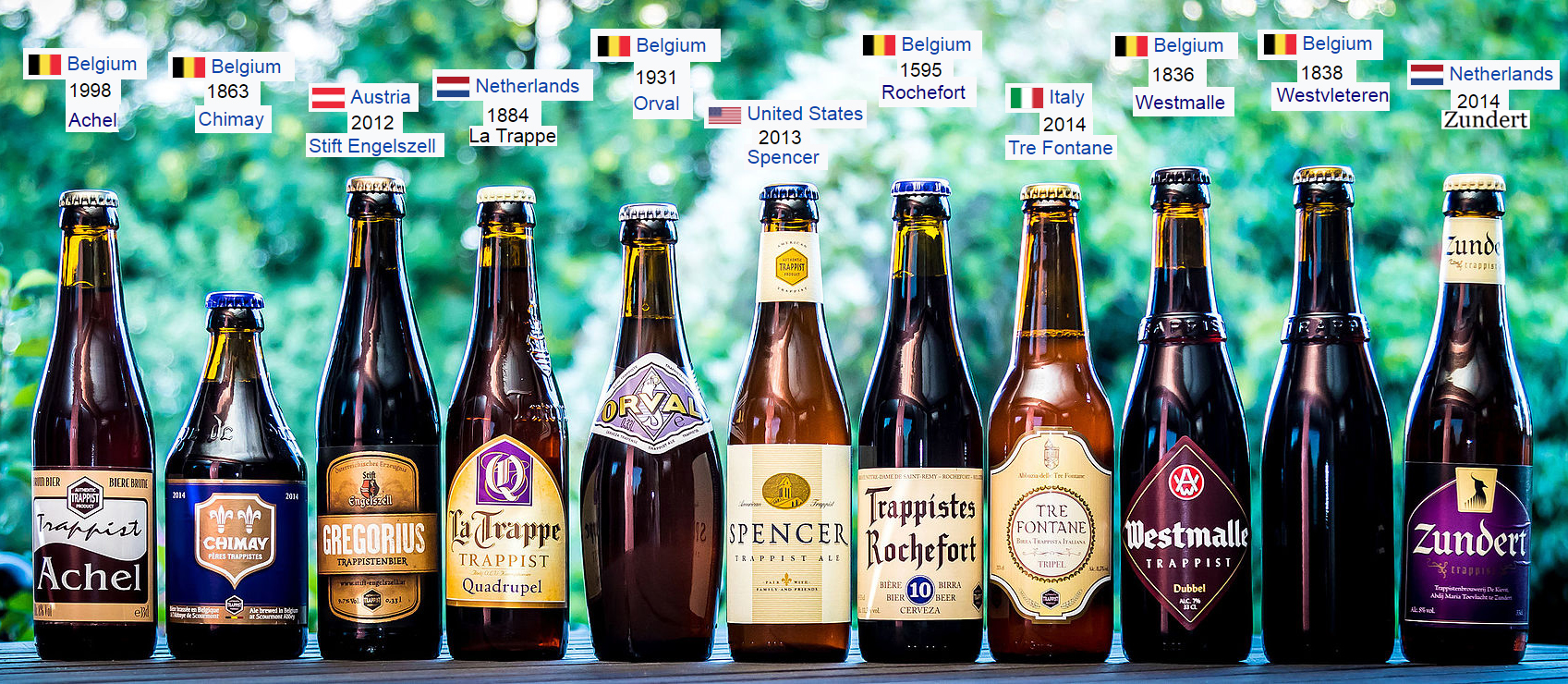 Example beers of the 11 recognised Trappist breweries as of August 2015